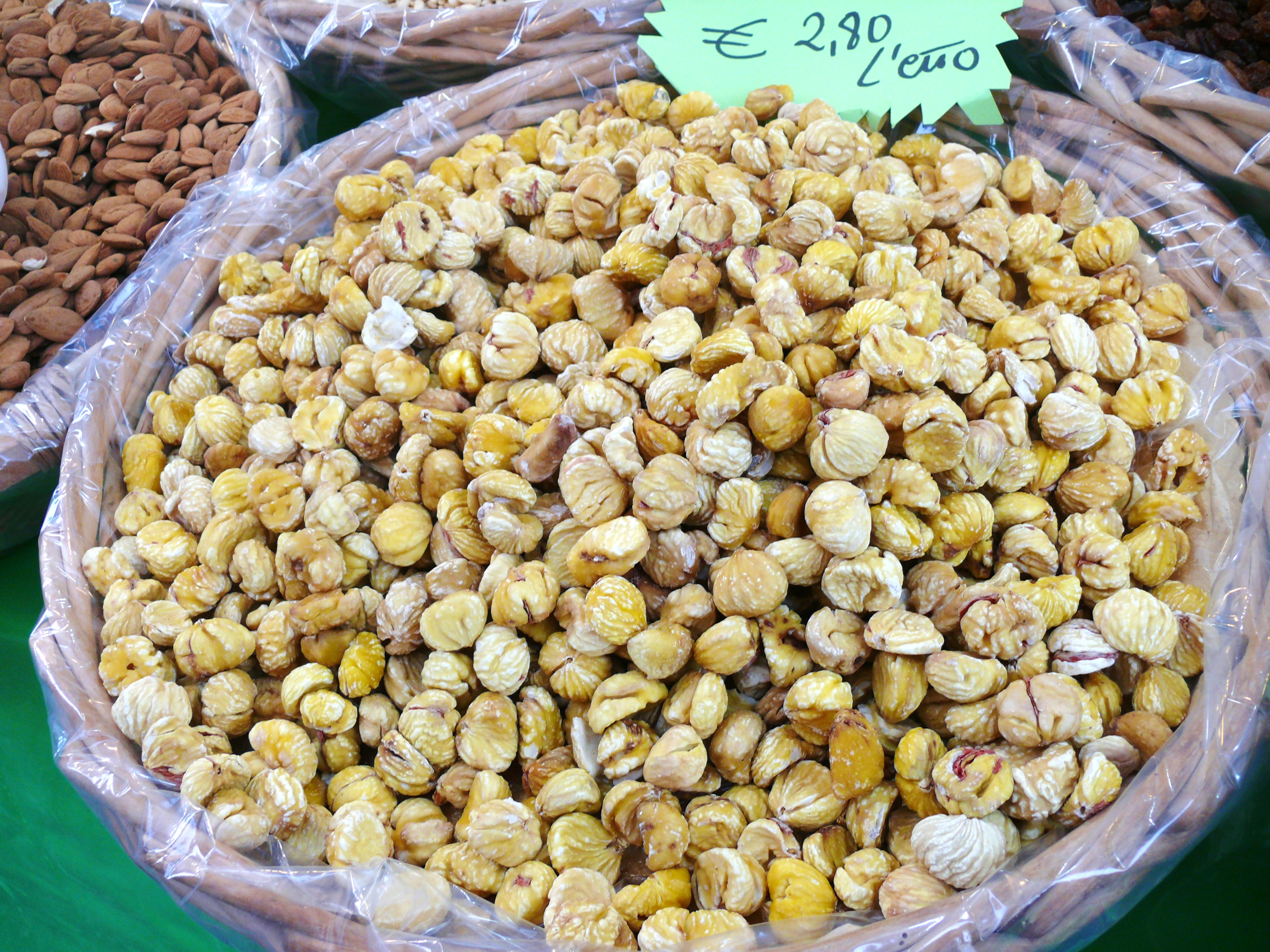 dried chestnut from Italy